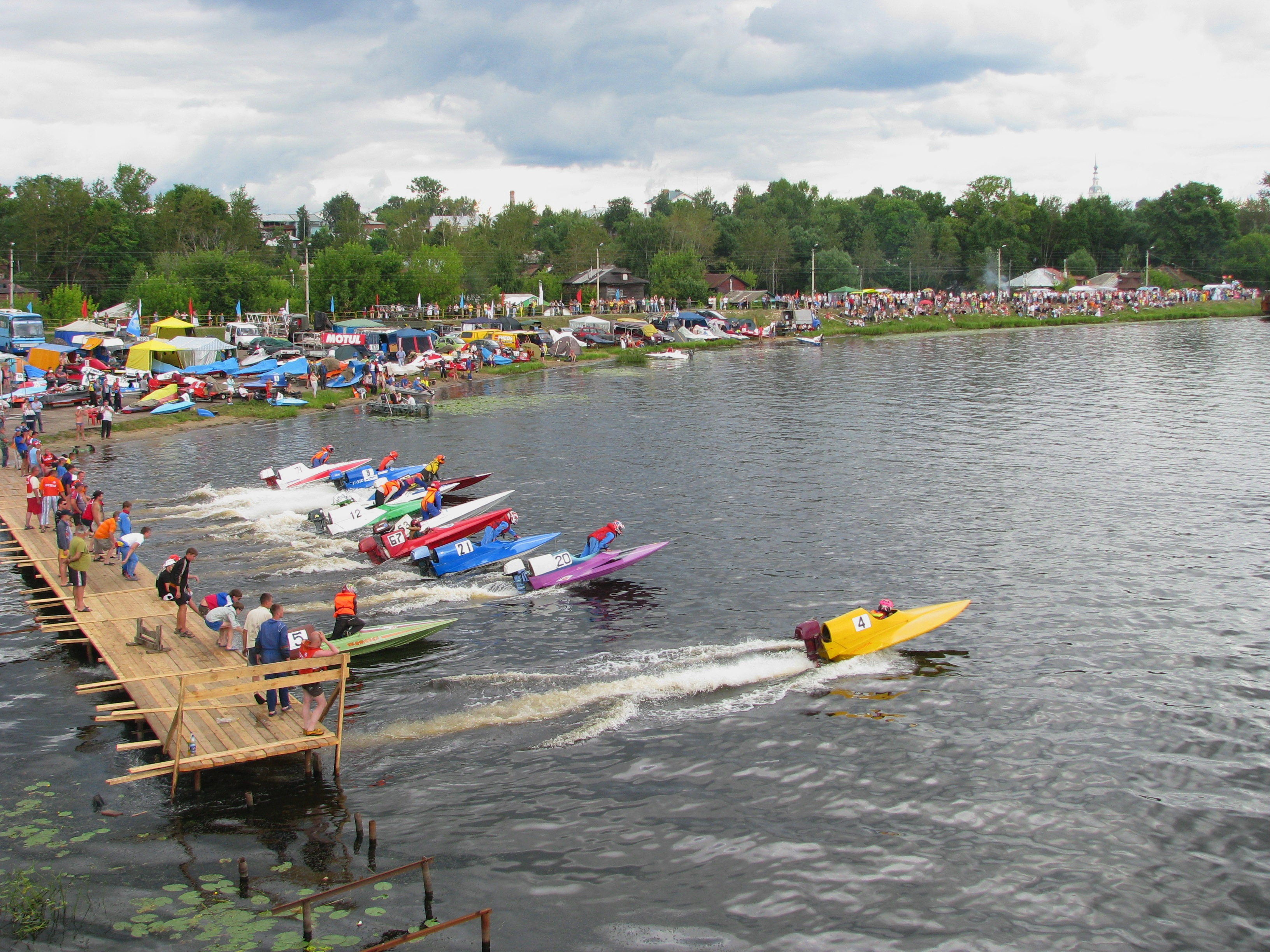 Соревнования по водно-моторному спорту. Старт